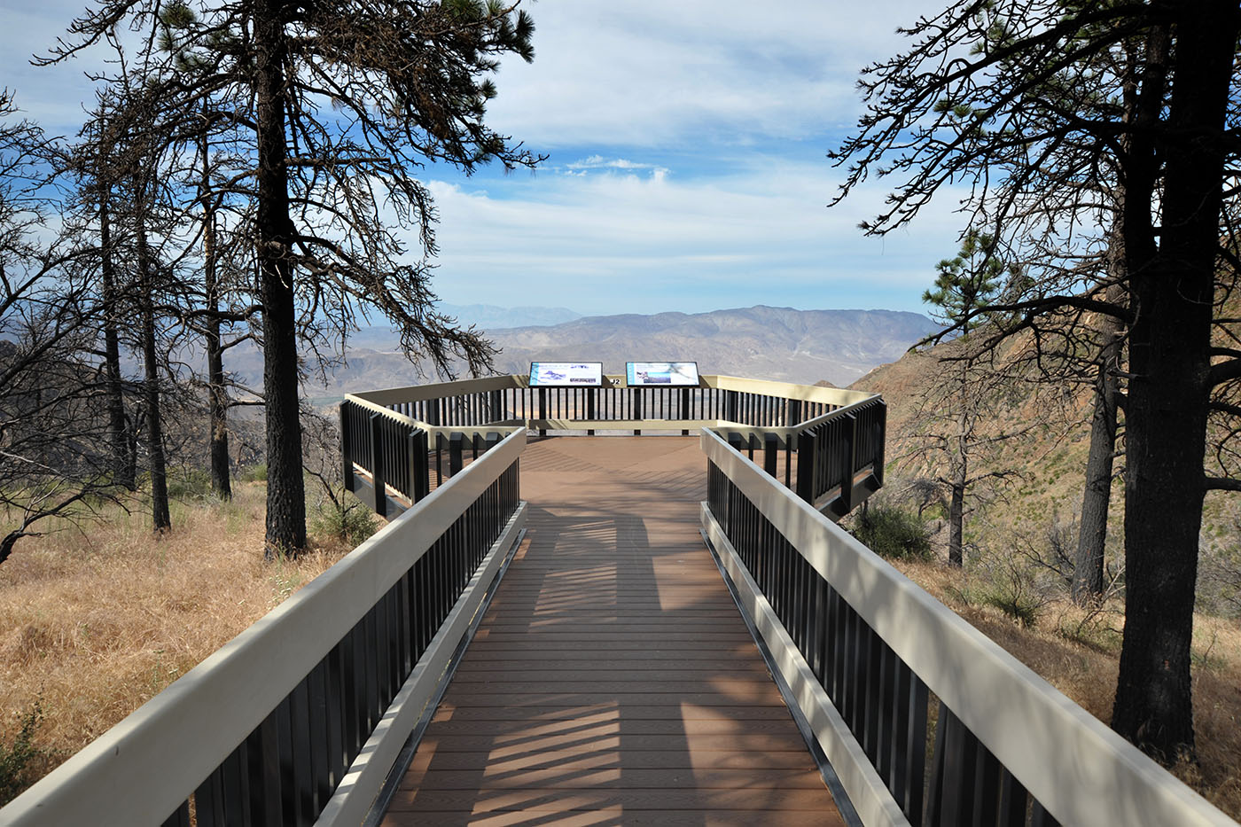 A wooden observation deck in the Laguna Mountains, California.